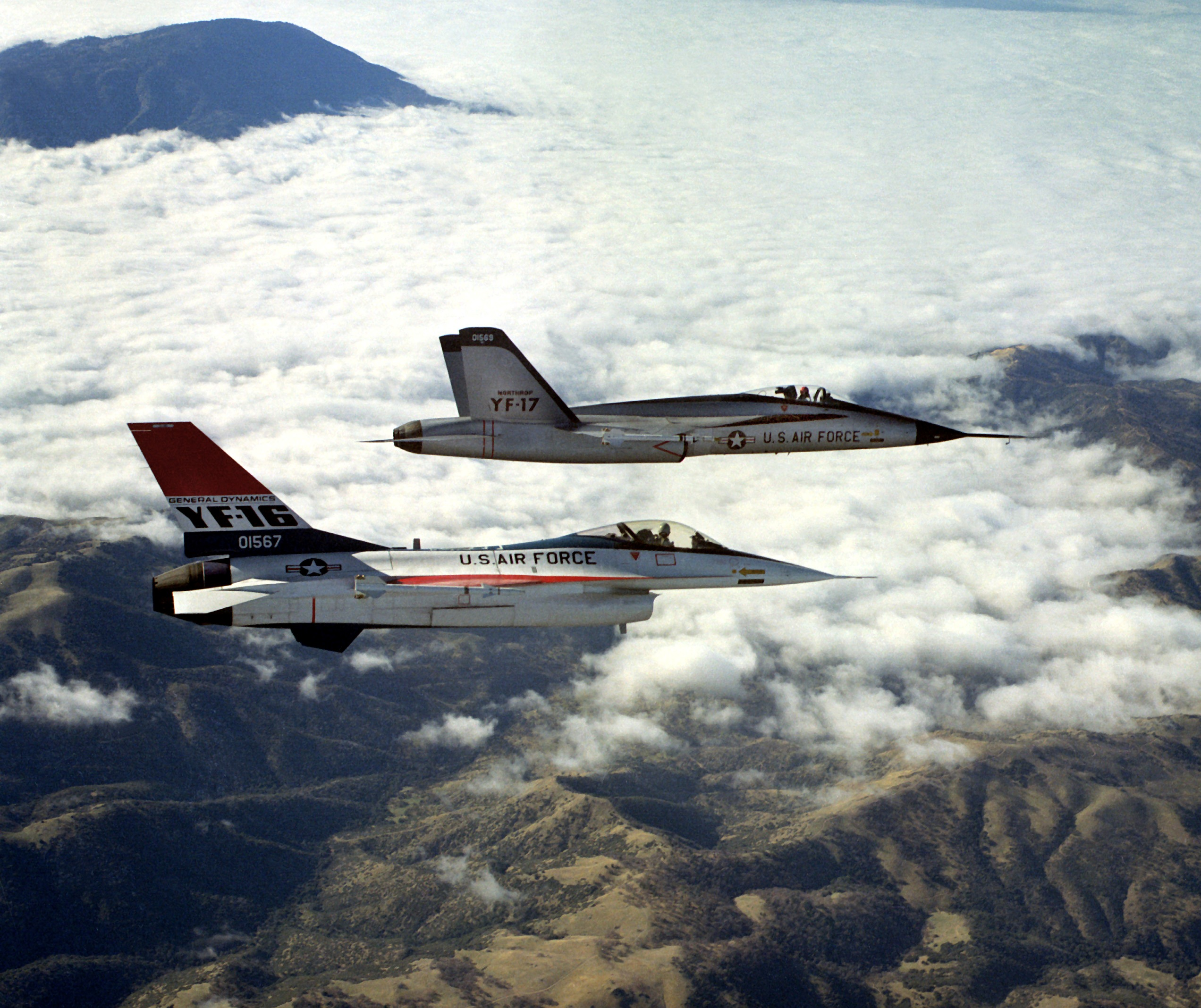 An air-to-air right side view of a YF-16 aircraft and a YF-17 aircraft, side-by-side, armed with AIM-9 Sidewinder missiles.According to Bob Ettinger in a YouTube video, he was piloting the YF-16 and Mike Clarke was flying the YF-17. Both were USAF test pilots at the time.[1]